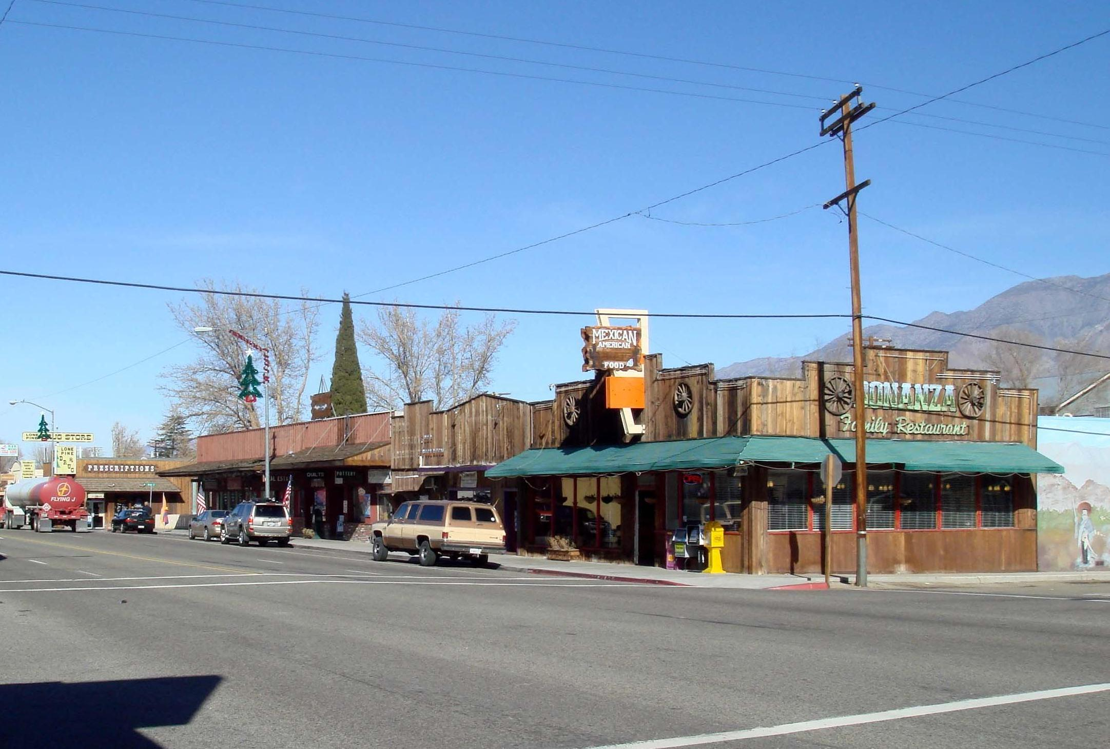 The main street of Lone Pine, California, on U.S. Route 395.